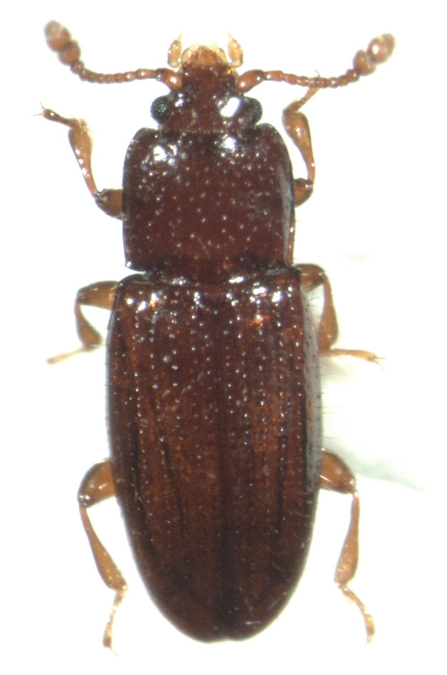 adult Philothermus sp. from Te Paki, New Zealand